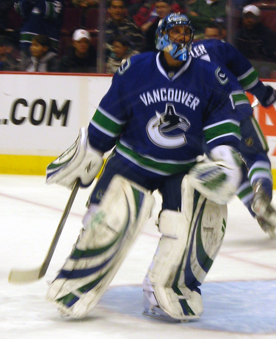 Vancouver Canucks goaltender Roberto Luongo during a warmup for a game against the Colorado Avalanche on March 15, 2009.